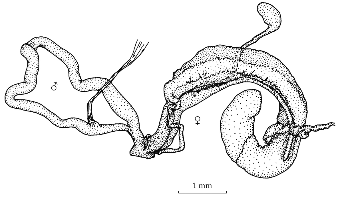 Reproductive system of Oospira (Atractophaedusa) smithi. Locality: Vietnam, Haiphong Province, Cat Ba Island, near entrance of the Trung Trang Cave, 6.iv.2001, 20°47.38'N 106°59.87'E.